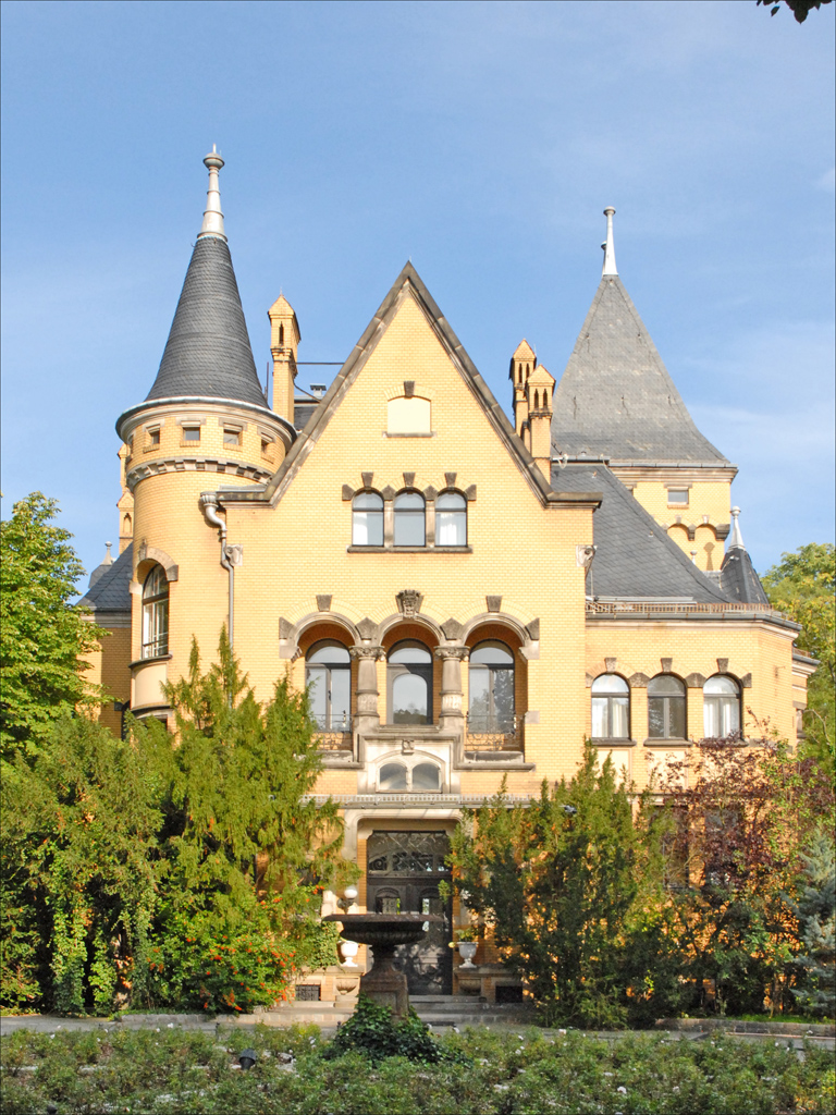 The Herz Villa of Manufacturer Paul Herz